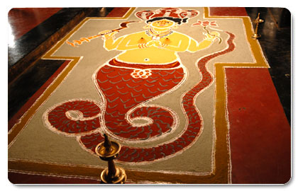 free of access